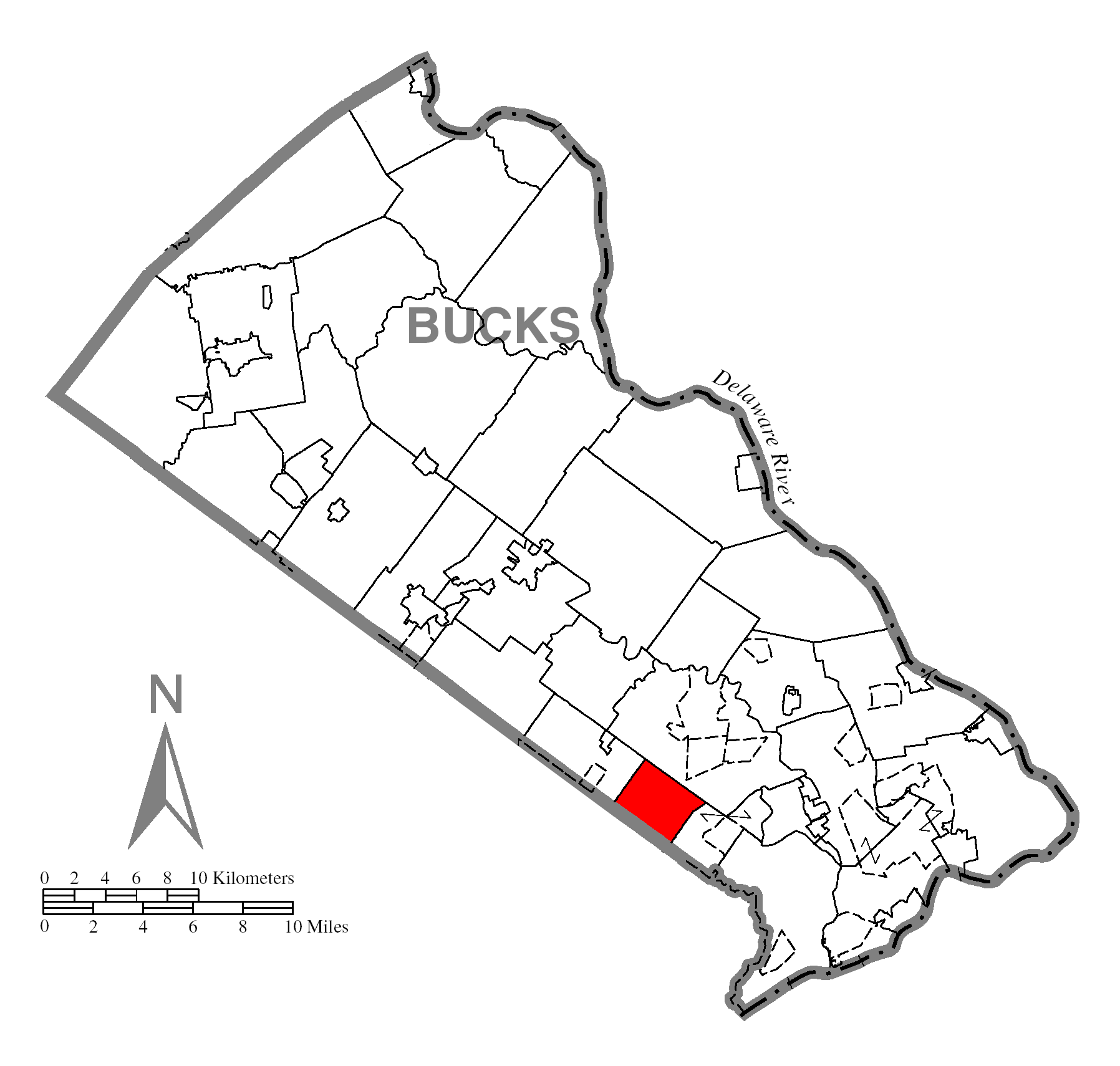 A map of Bucks County showing Upper Southampton Township, Pennsylvania (alternate) highlighted on the map.